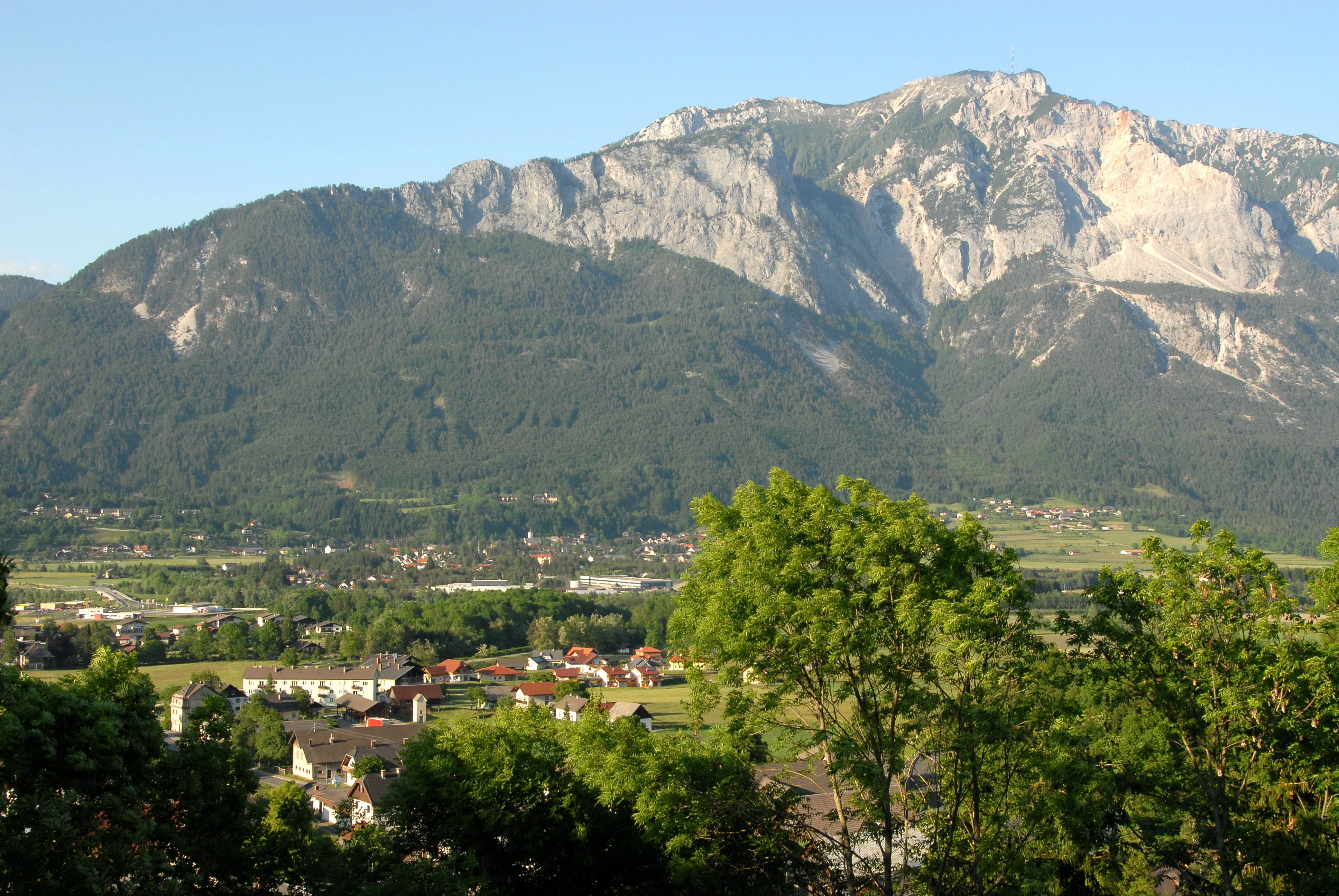 Nötsch with peak Dobratsch in the background, Lower Valley Gail, Carinthia, Austria.